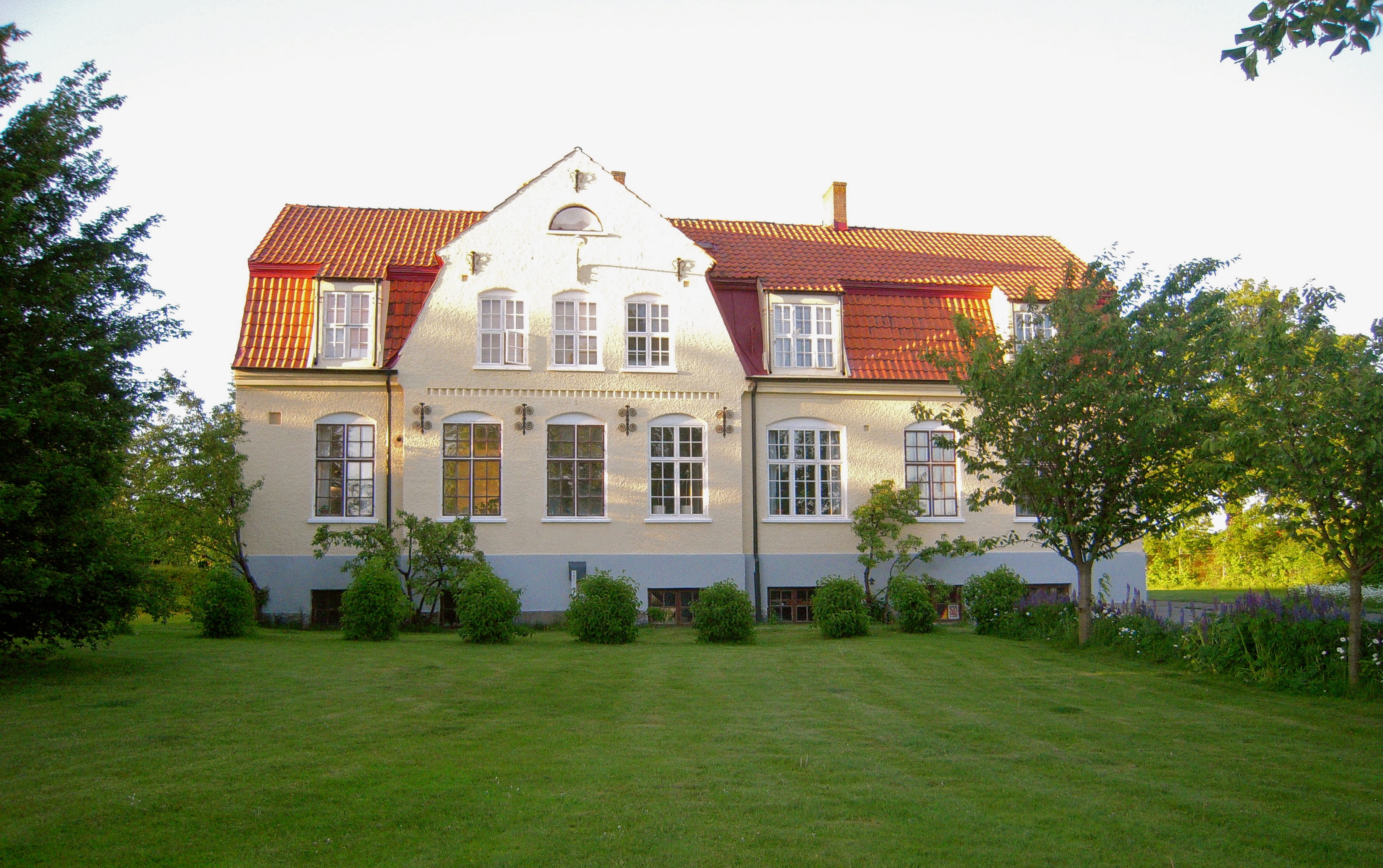 Græcoska barnhemmet